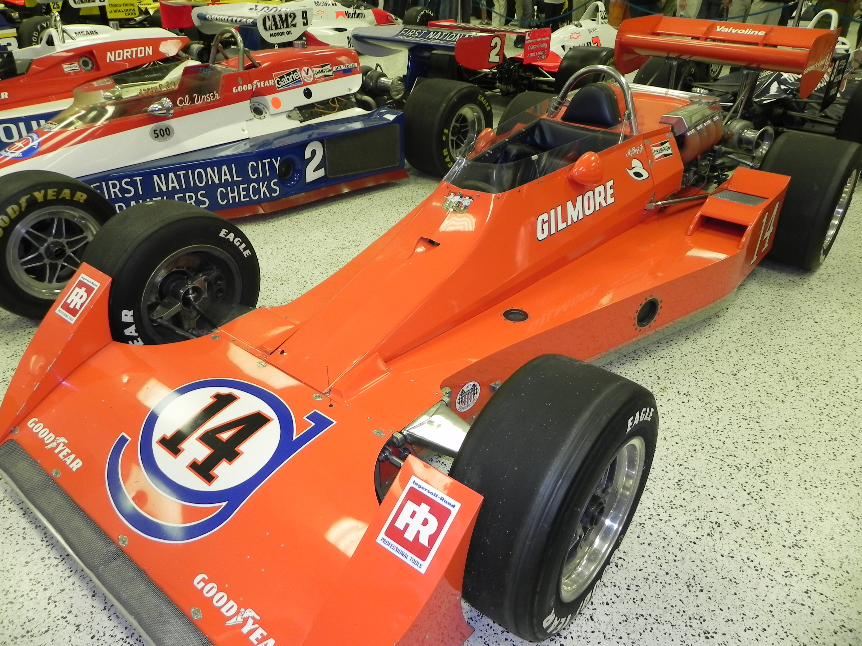 Image of the winning car of the 1977 Indianapolis 500 (A.J. Foyt). Photo was taken at the Indianapolis Motor Speedway Hall of Fame Museum, during the month of May 2011, at the 100th Anniversary "Ultimate Indianapolis 500 Winning Car Collection."